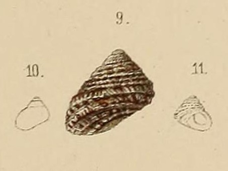 Type figures of Trochus pauperculus Lischke, 1872 (＝Herpetopoma pauperculum (Lischke, 1872)) from "prope Yedo" (near Tokyo), Japan. The original description of the species is here (Malakozoologische Blätter 19: 105.)